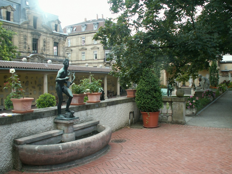 View into the lapidarium in Stuttgart, Germany